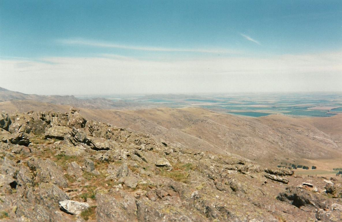 A panoramic view from Cerro Ventana, Buenos Aires Province, Argentina